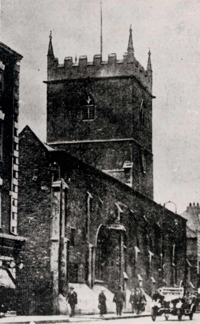 Grainy black and white photograph of St Peter's parish church, Bristol, England, taken about 1925. The view is from the northeast showing the nave of the church with the tower behind. On the extreme left and extreme right of the image are buildings of the Castle district, which were heavily bombed in the Bristol Blitz, leaving the area now called Castle Park. In the foreground of the image the street scene includes six people and a motor car.